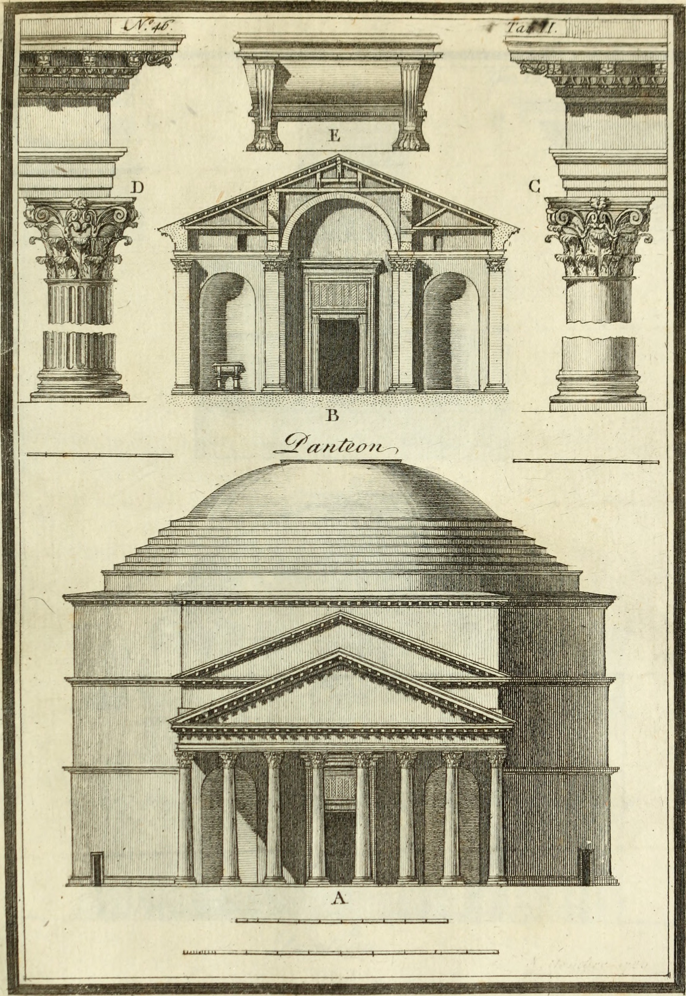 Title: Roma descritta ed illustrata Year: 1805 (1800s) Authors: Guattani, Giuseppe Antonio Subjects: Publisher: Rome, Pagliarini Text Appearing Before Image: ^ m ■ B ■ B H il L Text Appearing After Image: iMf_^, _ Pt!!-.^T^ 1 pgM